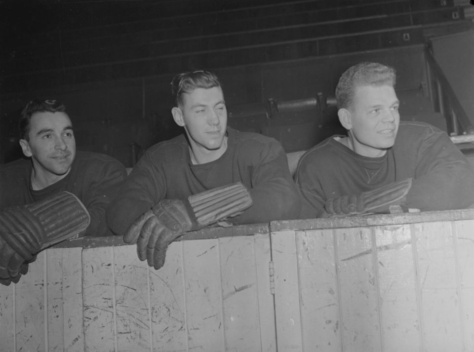 We see Misters Ken Mosdell, Ray Getliffe and Bob Fillion, hockey players of the Montreal Canadiens. They sit on the bench, pressed against to the band.